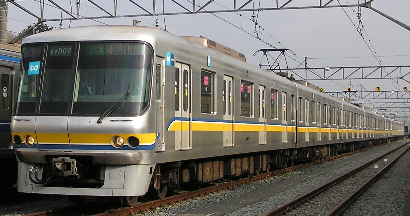 Tokyo Metro Yurakucho Line 07 series EMU set 02 on display at Seibu's Kotesashi Depot open day